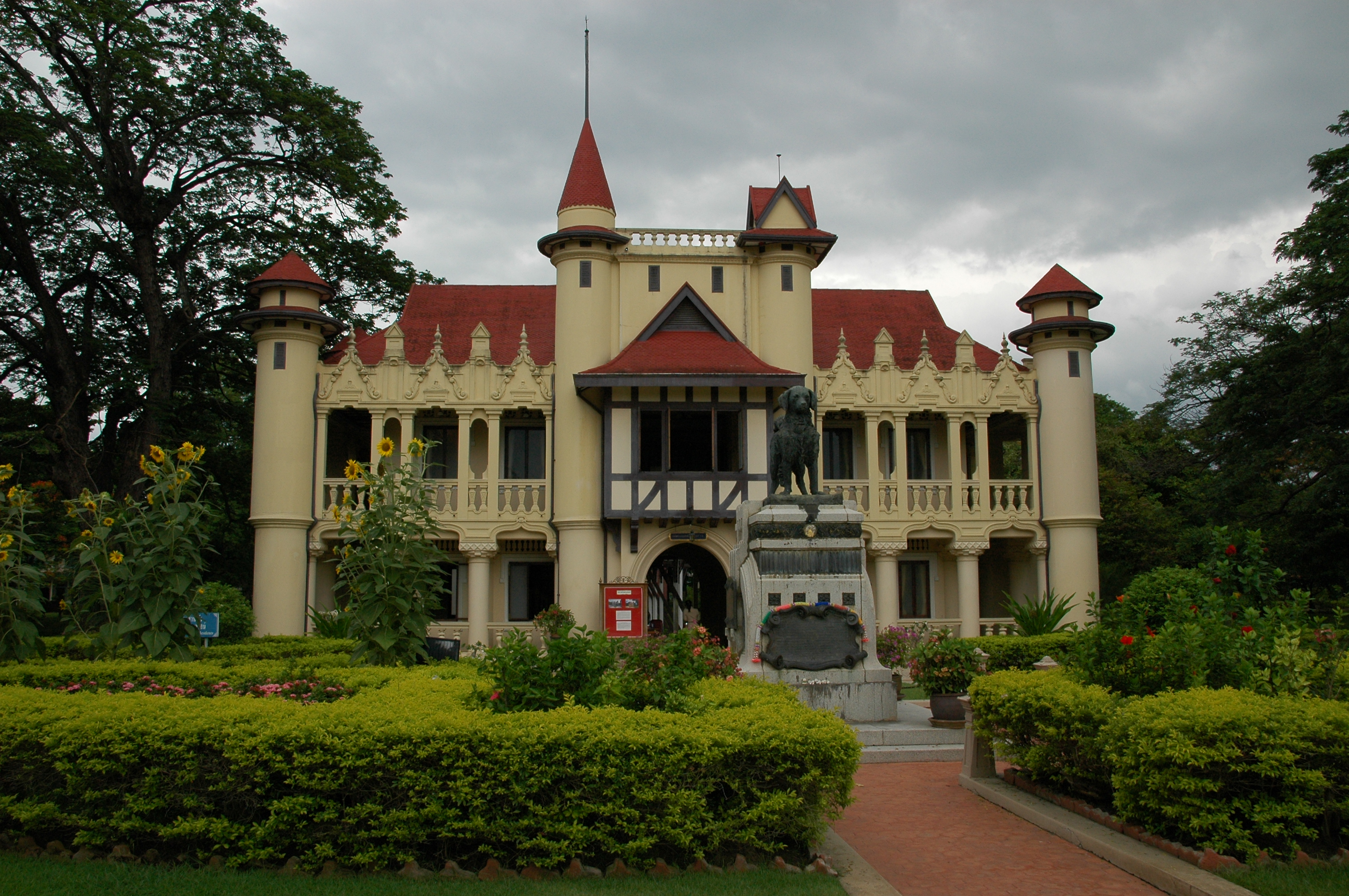 Chaleemongkolasana Residence, Sanam Chan, Nakhon Pathom, Thailand